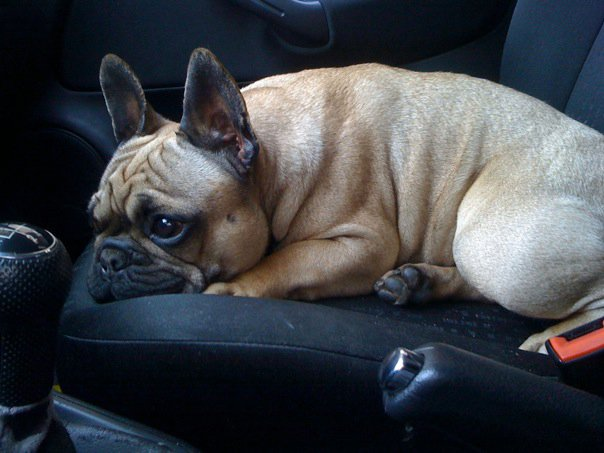 bea descansando